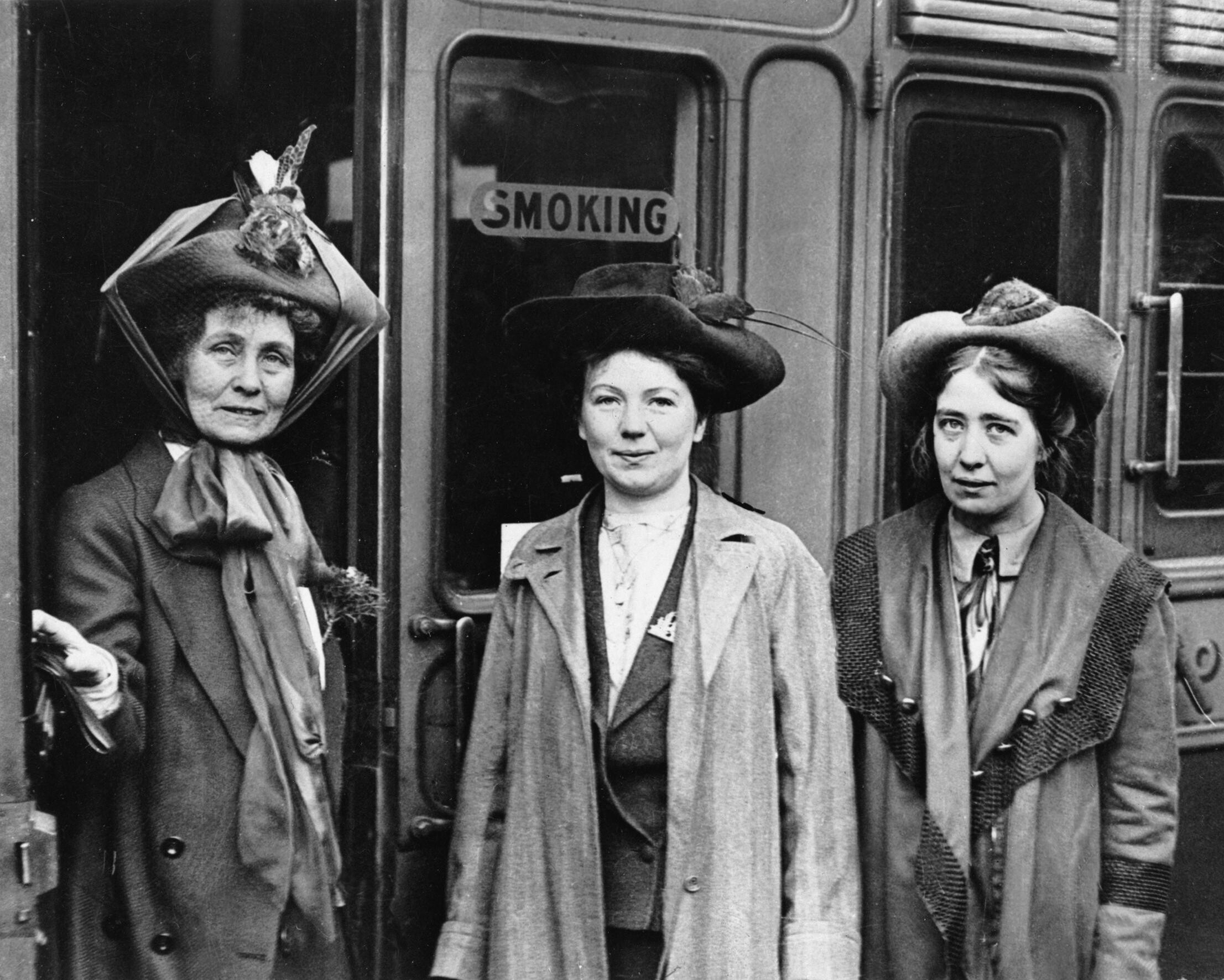 Britain Before the First World War A portrait of the leader of the Women's Suffragette movement, Mrs Emmeline Pankhurst (left) and her daughters Christabel (centre) and Sylvia (right) at Waterloo Station, London. Mrs Pankhurst was about to leave for a lecture tour of the USA and Canada.